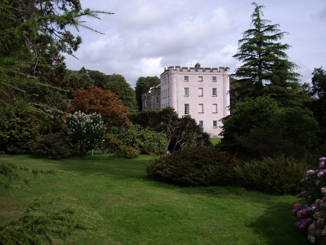 Picton Castle. Picton Castle from the gardens